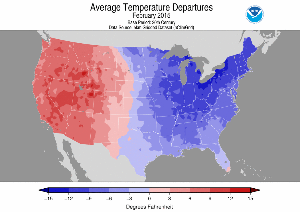 Temperature map showing the average temperature departures in the United States for February 2015.